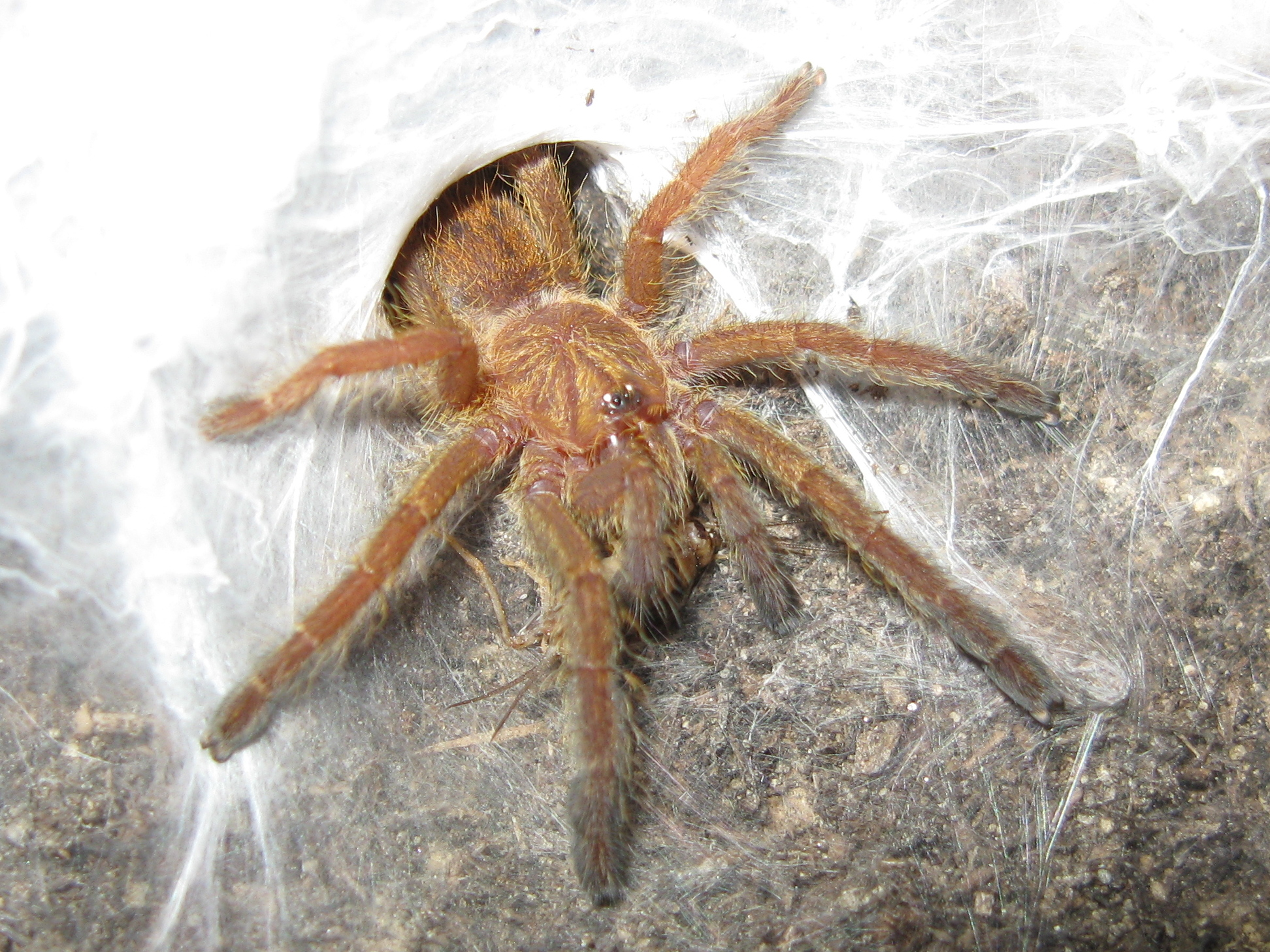 Pterinochilus murinus sling eating a cricket.